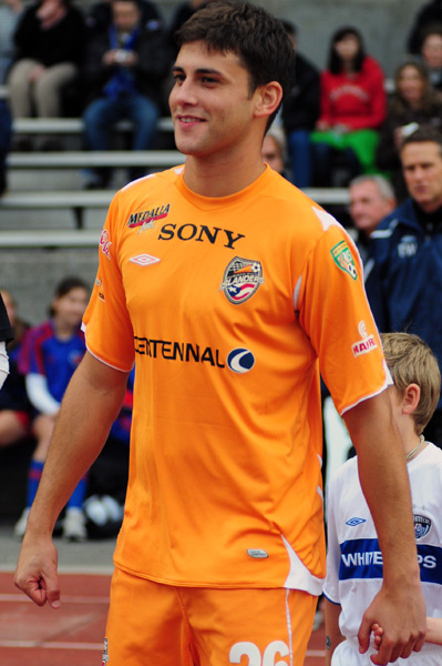 Photo of soccer player, Cristian Arrieta. Photo by Wilson Wong.